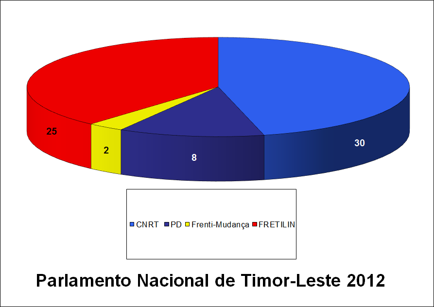 Parliament of East Timor after election in 2012